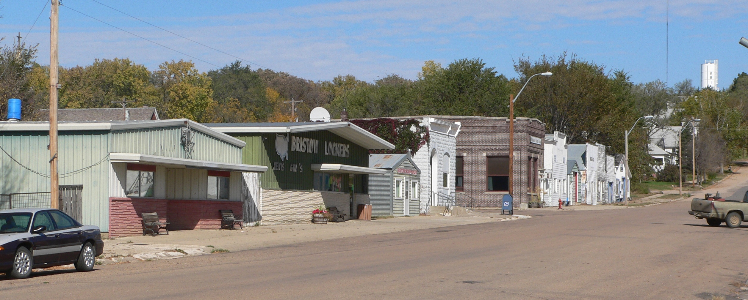 Downtown Bristow, Nebraska: west side of Prairie Street, looking northwest from about Bank Street.